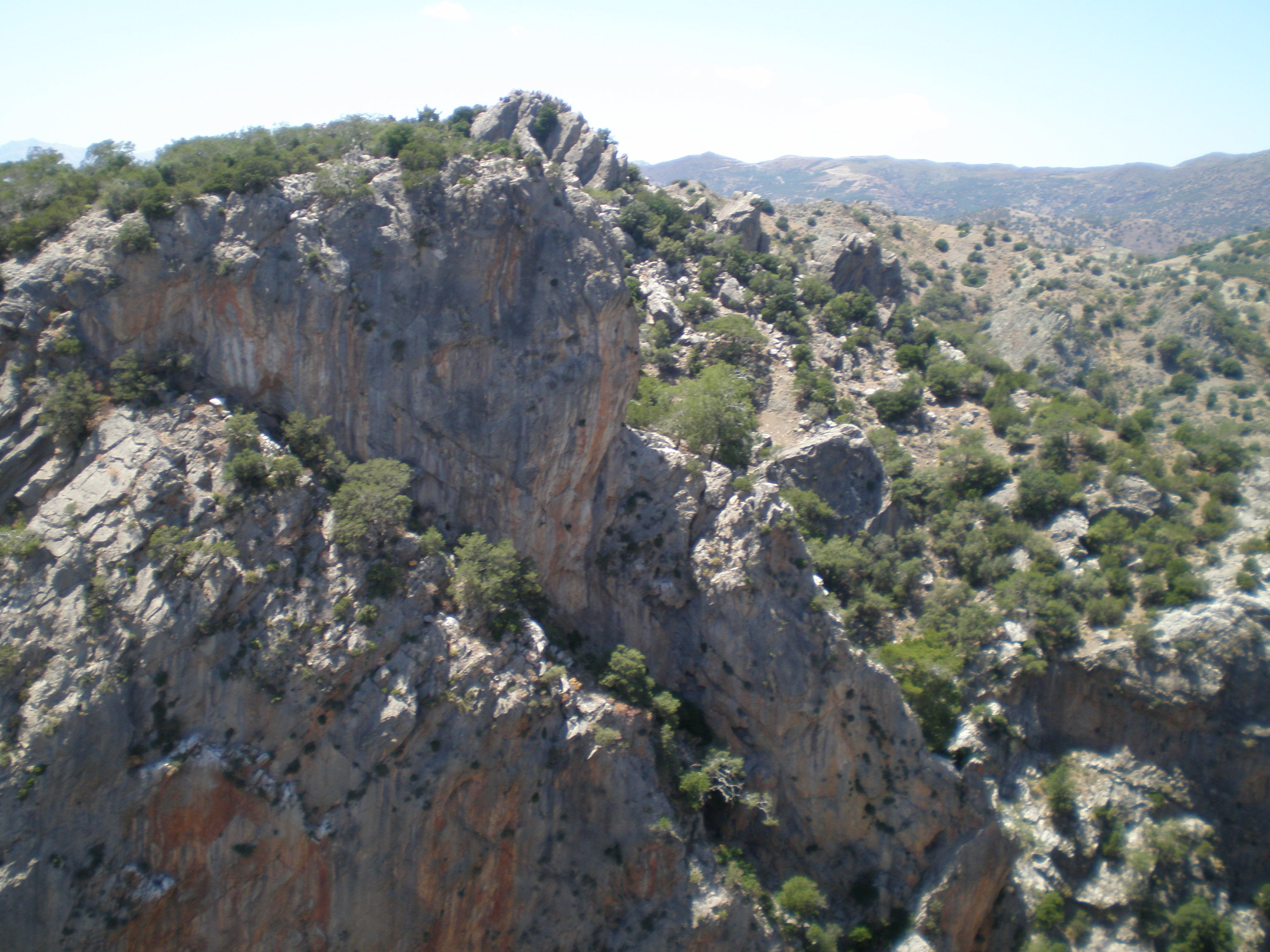 The Gorge of Arvi, in Iraklion Prefecture.